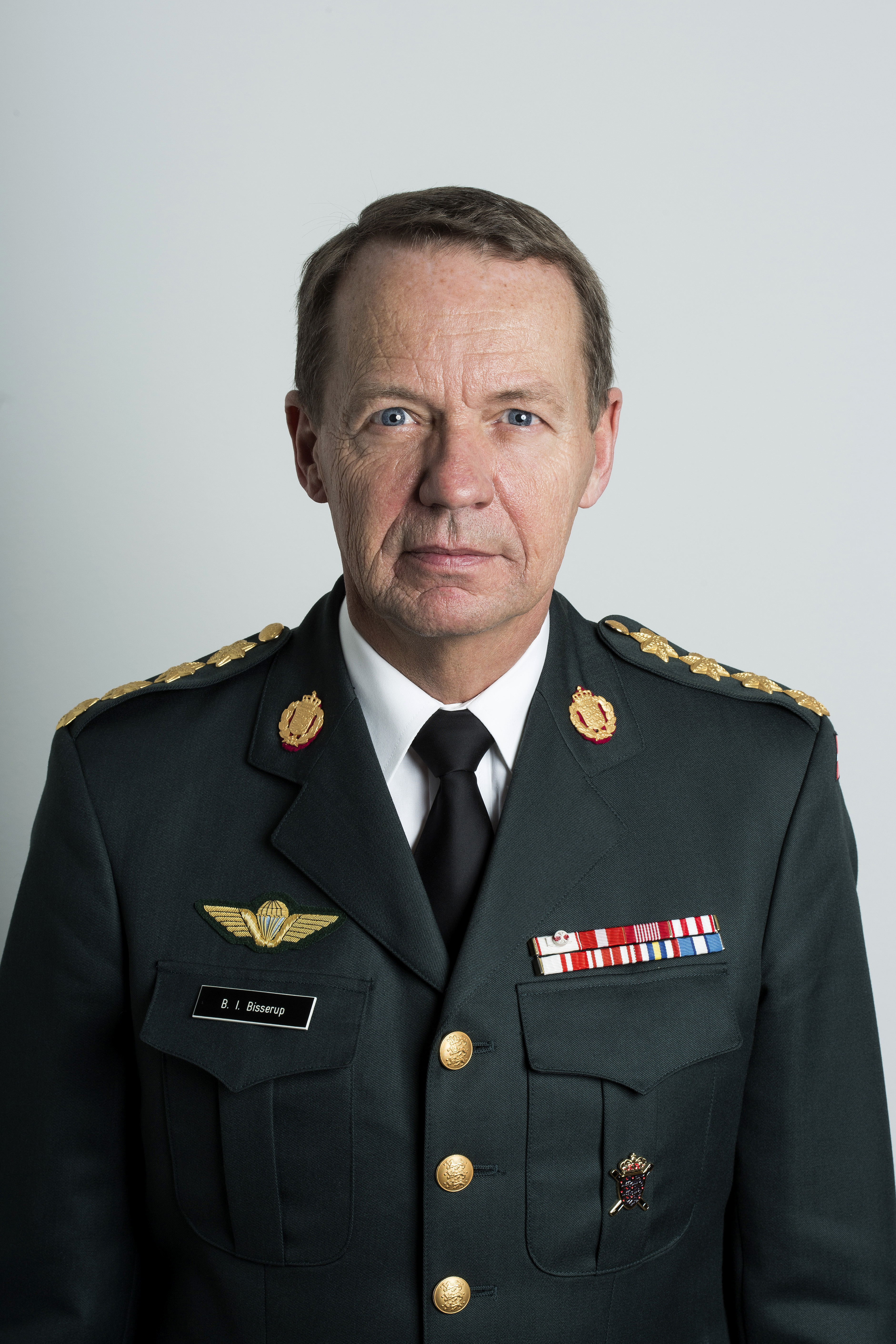 Official portrait of Bjørn Bisserup as Chief of Defence, in 2017